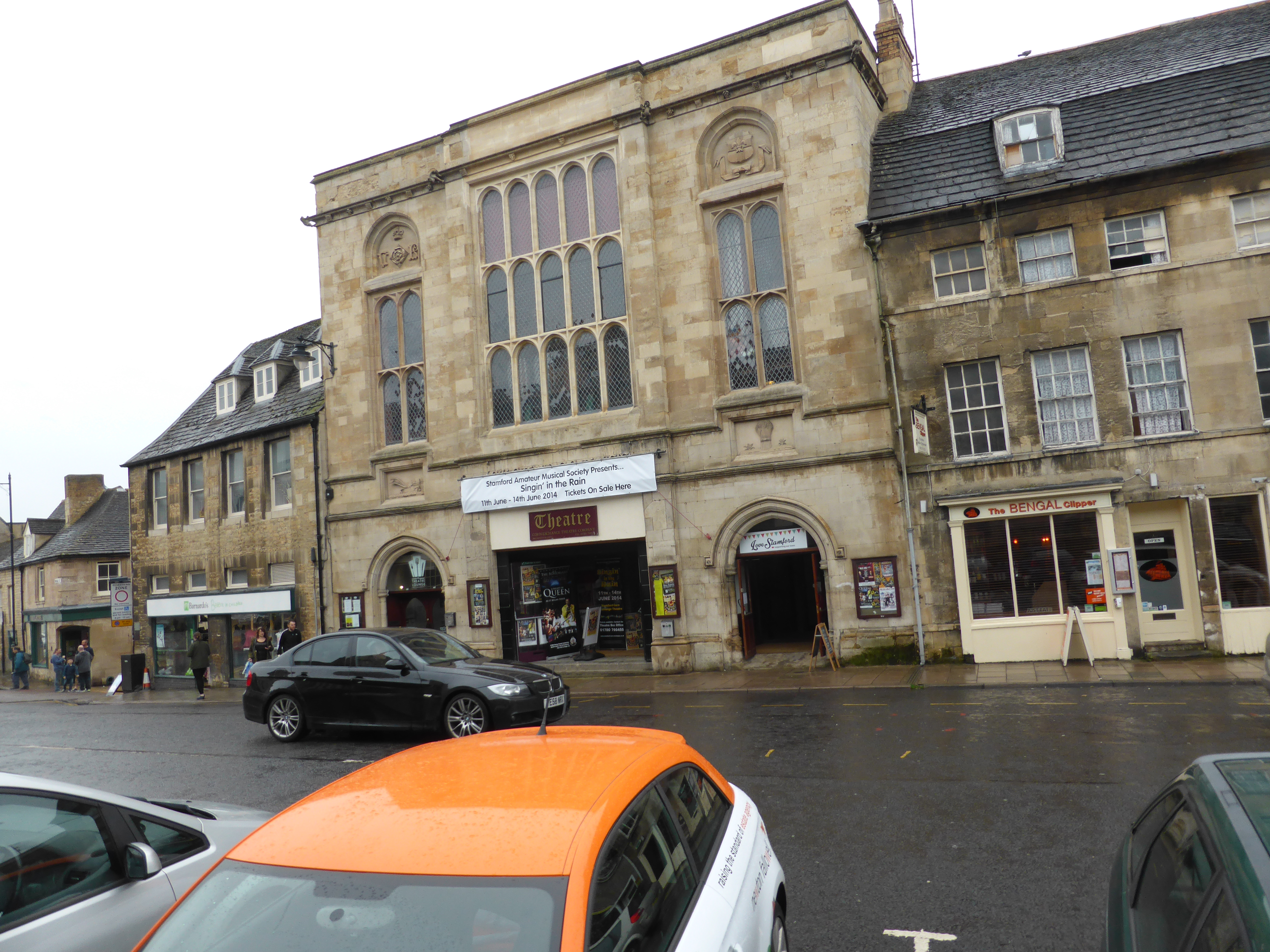 The Corn Exchange